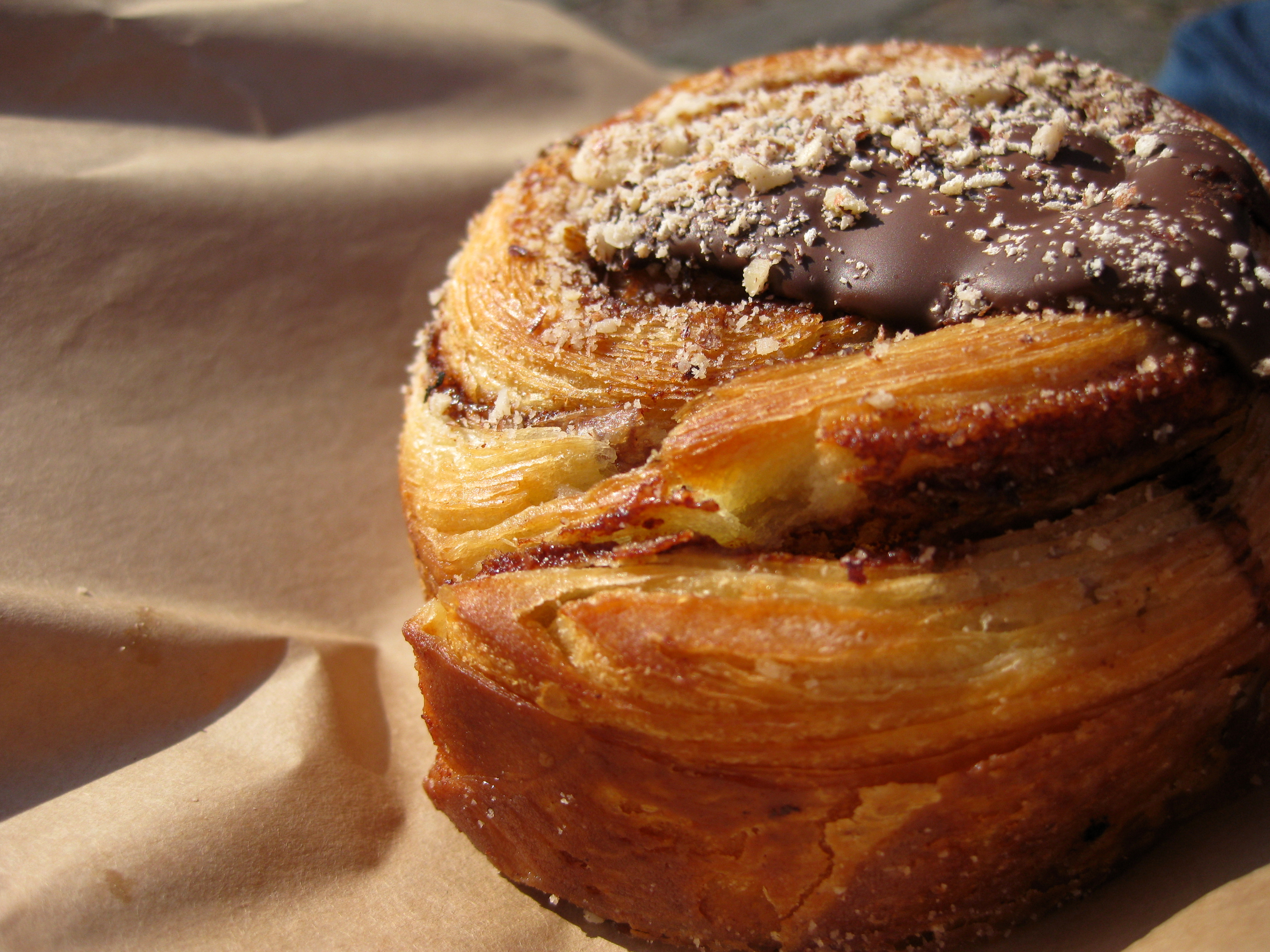 Cinnamon danish in Copenhagen.